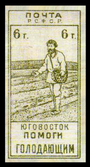 A RSFSR semi-postal stamp, 1922 Narkomfin/Pomgol issue for South-Eastern Russia (6000 roubles)